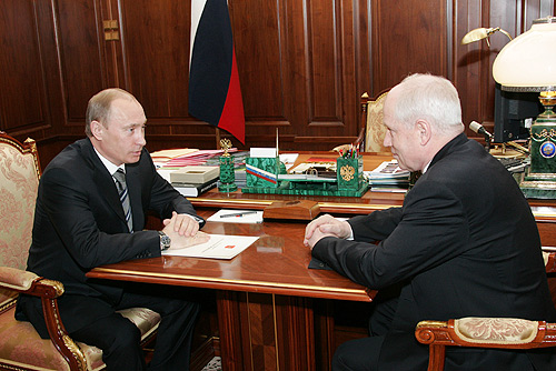 THE KREMLIN, MOSCOW. With Executive Secretary of the Commonwealth of Independent States Sergei Lebedev.